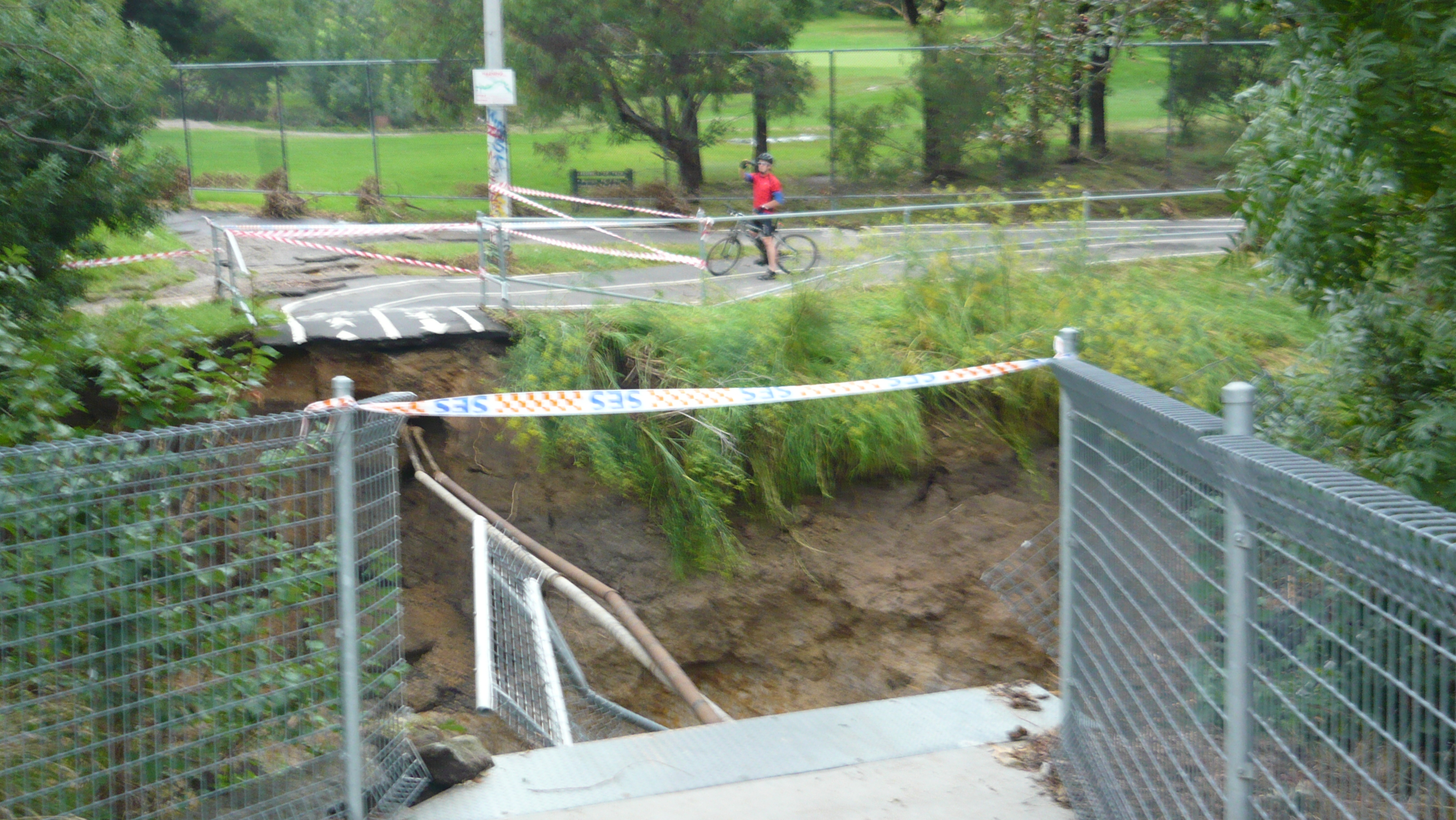 The destroyed Solway Steet Foot Bridge which joined the Malvern Valley Public Golf Course to Solway St, this is part of the Gardiners Creek Trail.